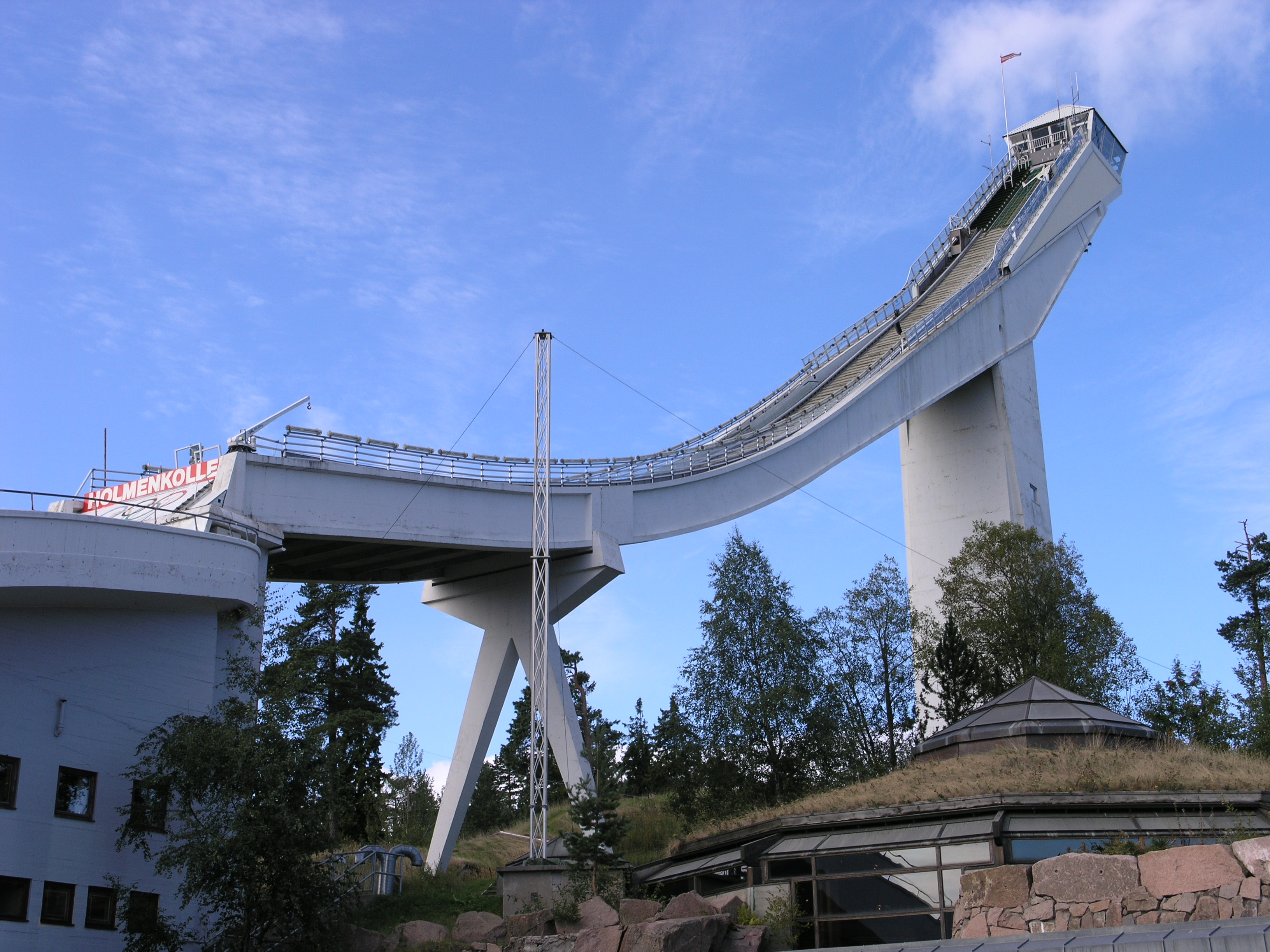 Ski jump in Oslo